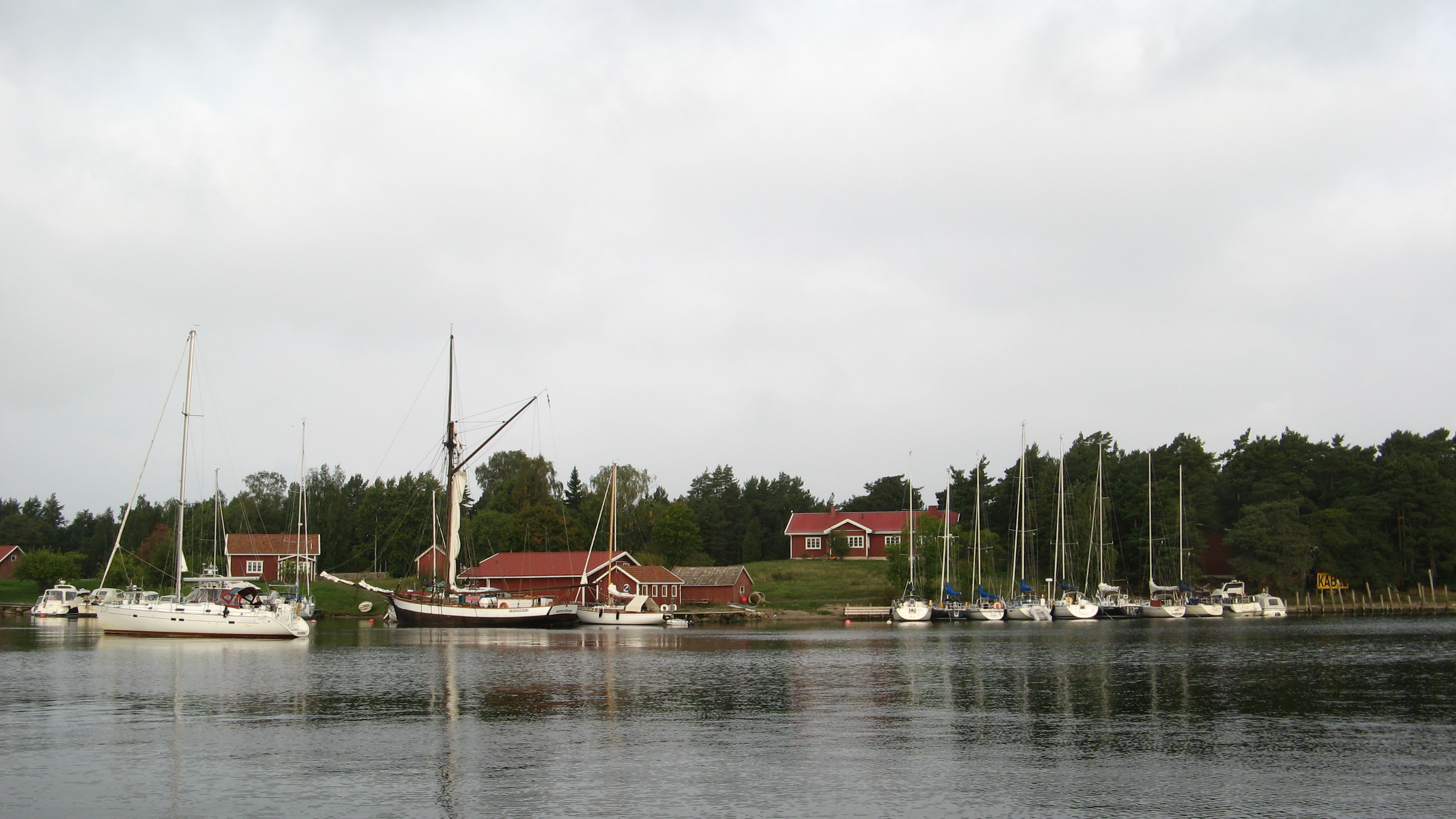 The Helsingholmen marina.